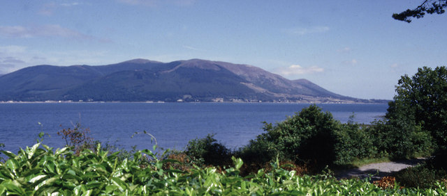 The Mountains of Mourne. The Mountains of Mourne taken from the Irish Republic side of Carlingford Lough.Ireland.